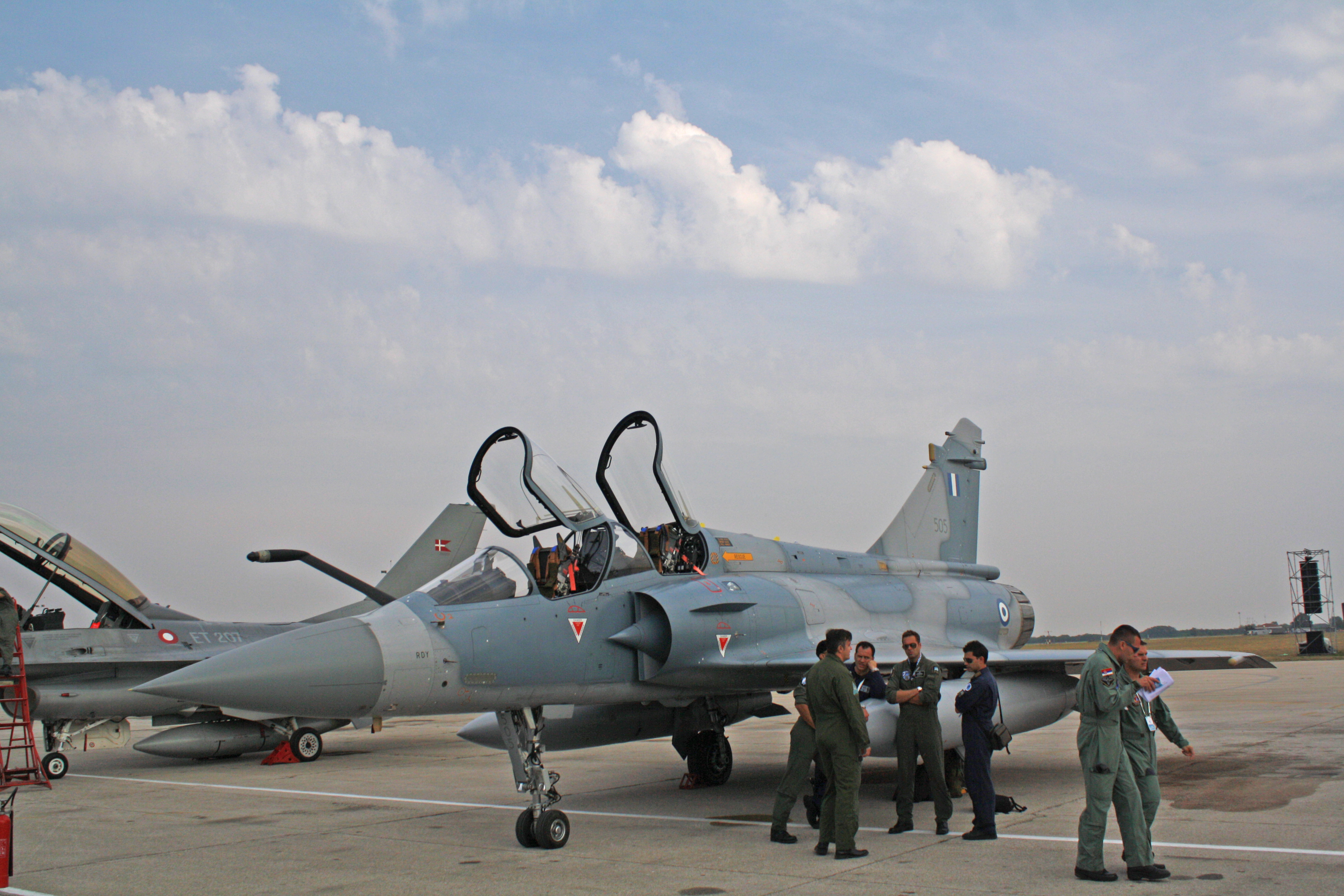 Mirage 2000 fighter aircraft No.505 of Helenic Air Force, on display at Batajnica airbase during the international Batajnica 2009 airshow Грчки борбени авион Мираж 2000 изложен на Батајничком аеродрому за време међународног аеромитинга Батајница 2009.